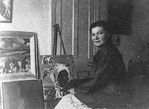 This portrait of Maggie Laubser was taken in 1945, while she was busy readying a painting of a daughter of the Bafokeng people. The painting, 'Annie of the Royal Bafokeng' is signed 'M. Laubser' (lower right) and further signed, inscribed, and dated 'Maggie Laubser, Oortmanspoort, Klipheuvel Stasie, Kaap 1945'.